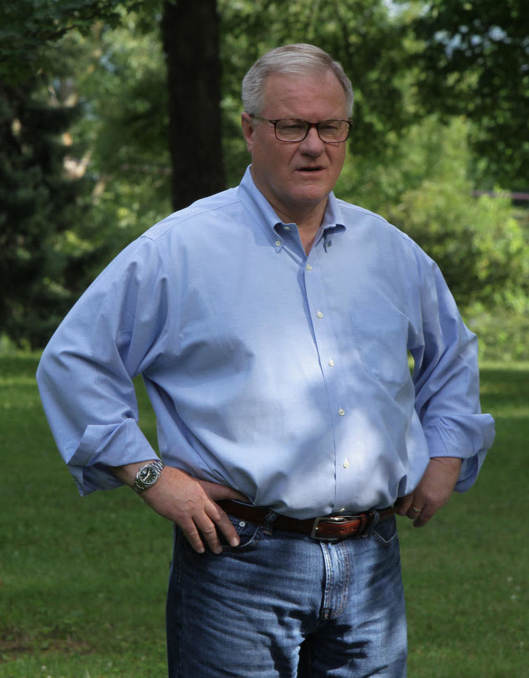 This is a photograph of the Republican nominee for the Pennsylvania governor's race in 2018, State Senator Scott Wagner.